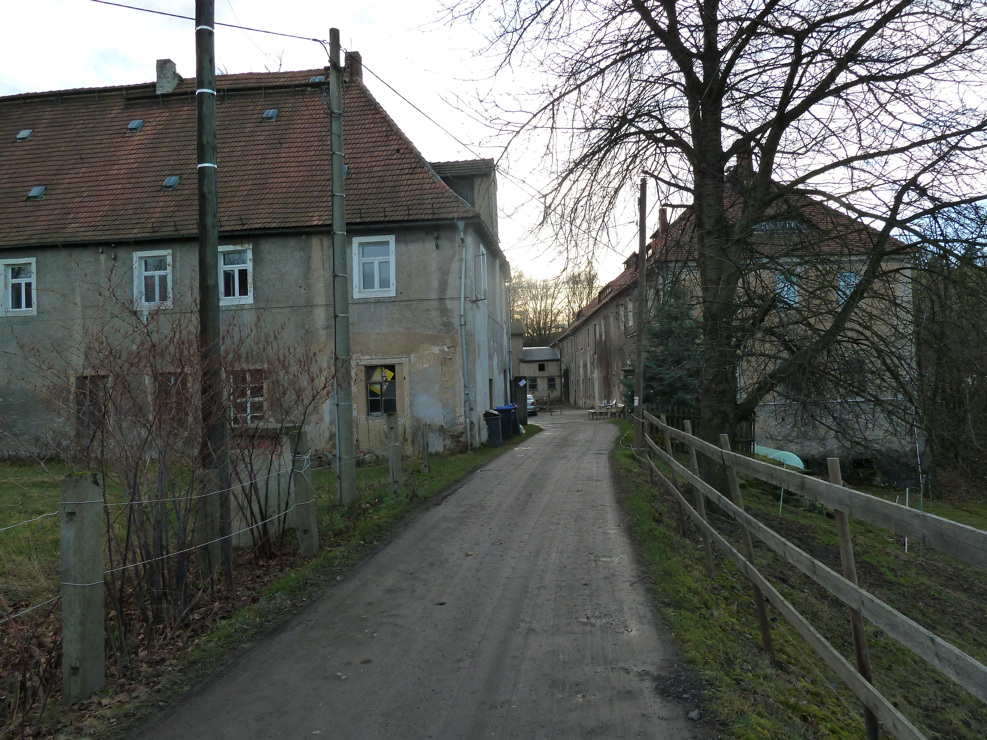 Eckersdorf manor; since 1696. Here lived J.G. Lehmann, counsellor of the Imperial Russian Mountain Board, who wrote an early essay about the minerals and the great demand of forges for mineral coal of the Doehlen basin (1748).